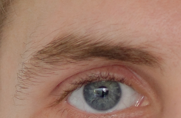 Jérémy Cadot's eyebrow